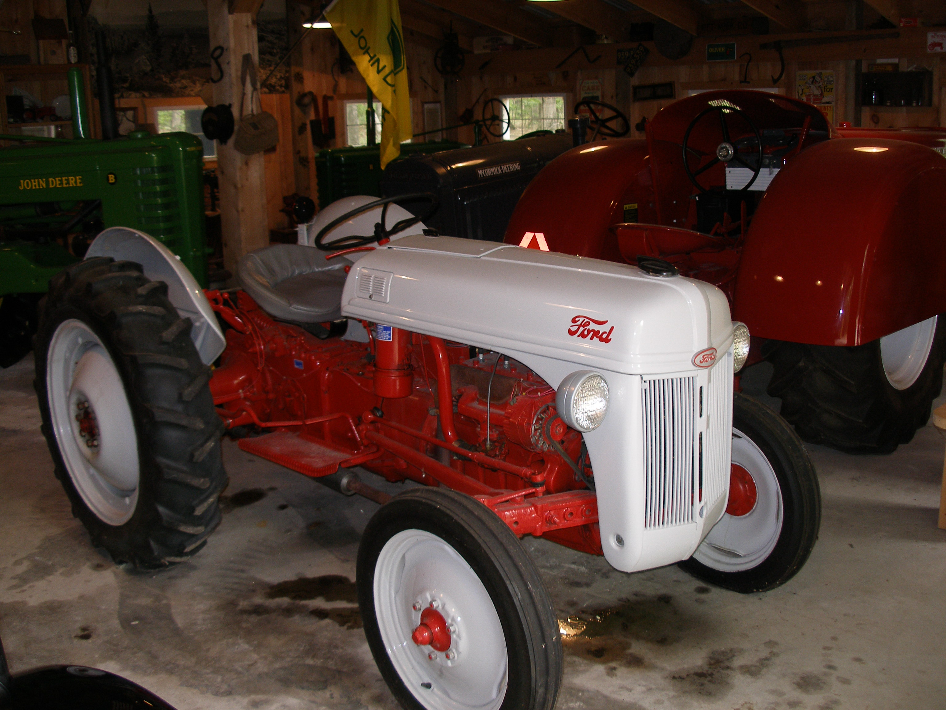 A Ford 8N tractor in a barn in northern Michigan, USA